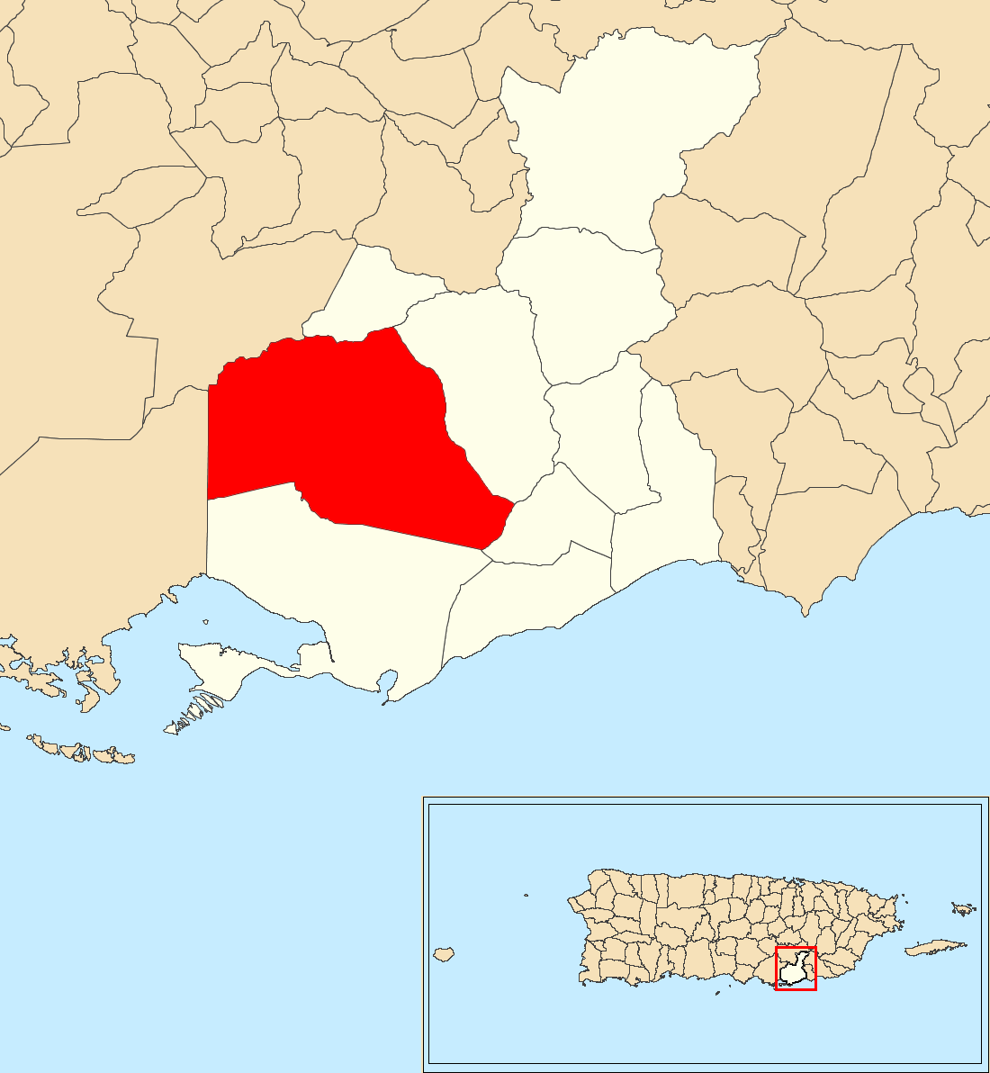 Pozo Hondo, Guayama, Puerto Rico locator map